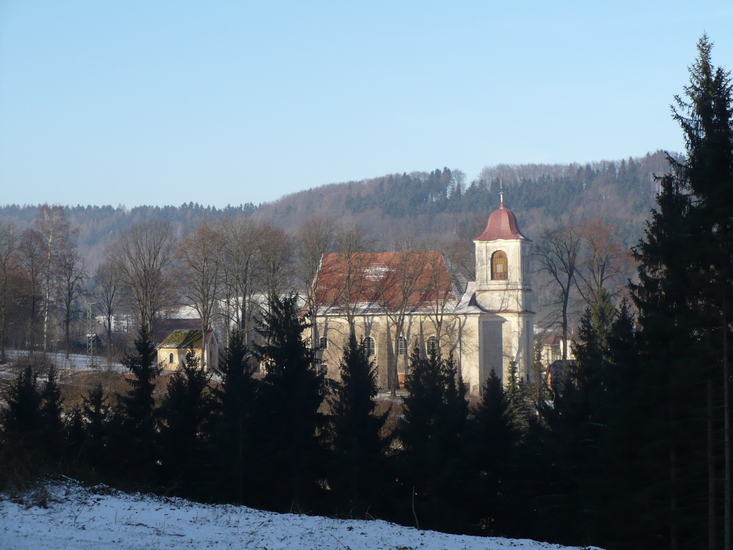 saint Joseph's church in Starkov, Czech republic.